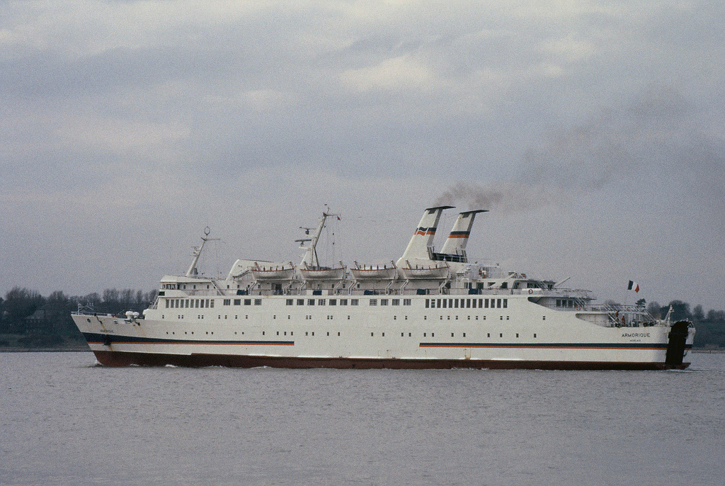 Entered Service .25 March 1986. Withdrawn. 16 April 1986. 5731 tonnes Twin Screw Ro-Ro Motorship. Chartered For Harwich - Hoek Of Holland Thanks To John Wray For Letting Me Use This Photo**